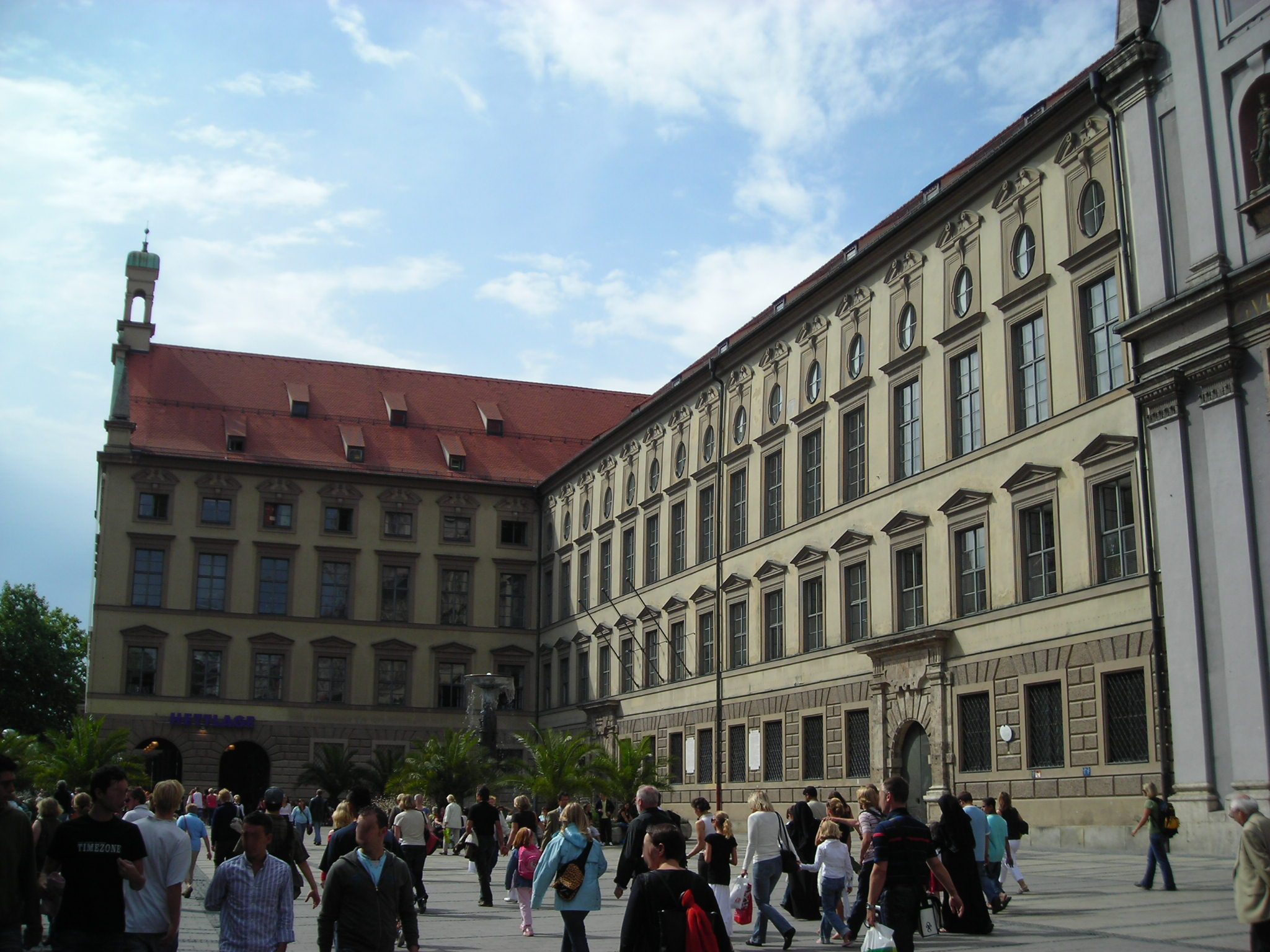 Alte Akademie Munich, Germany as seen from Neuhauser Straße.